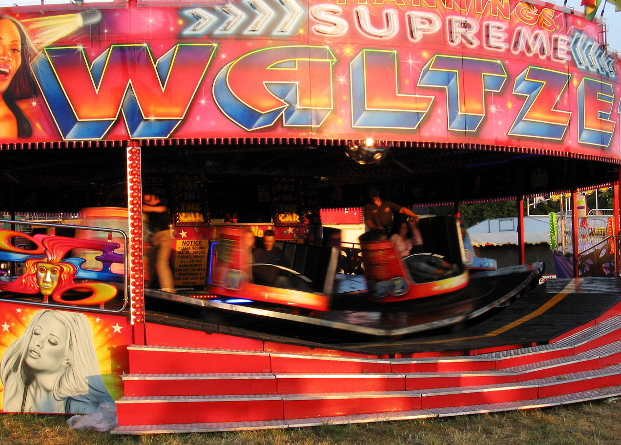 Manning's Supreme Waltzer with waltzer cars being spun by a couple of gaff lads. Cambridge Midsummer Fair 2005.